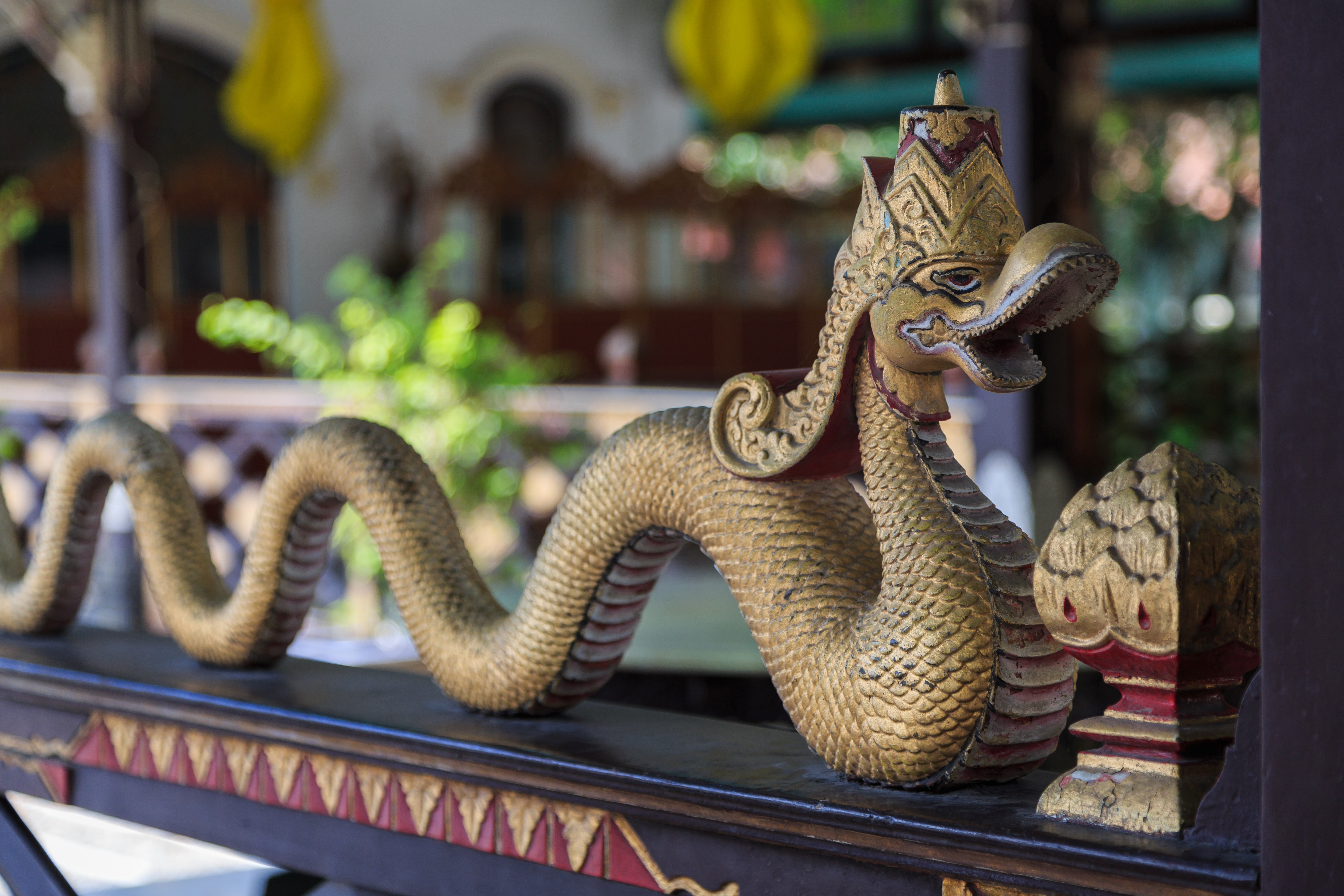 Yogyakarta, Indonesia: Snake as decoration of a railing in the Kraton of Yogyakarta (Palace of the Sultan)